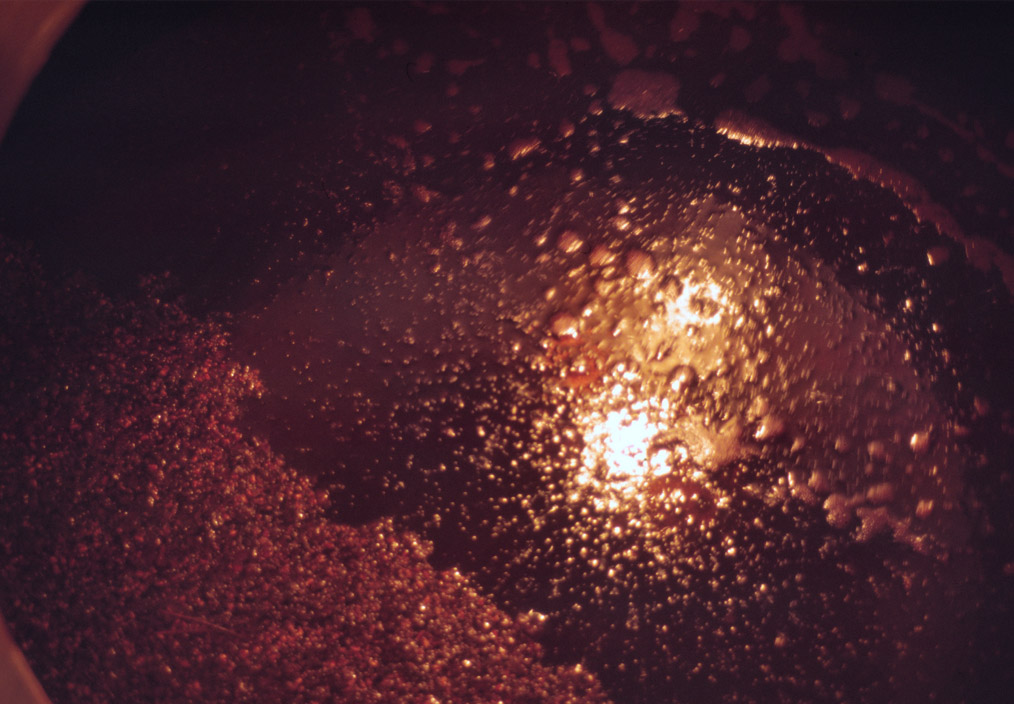 fermentation of red wine, Gaillac, France